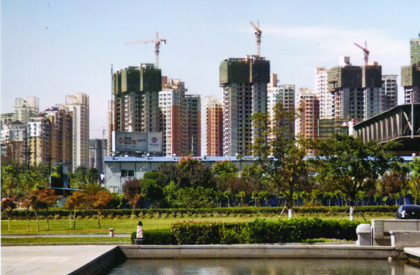 Modern Luoyang